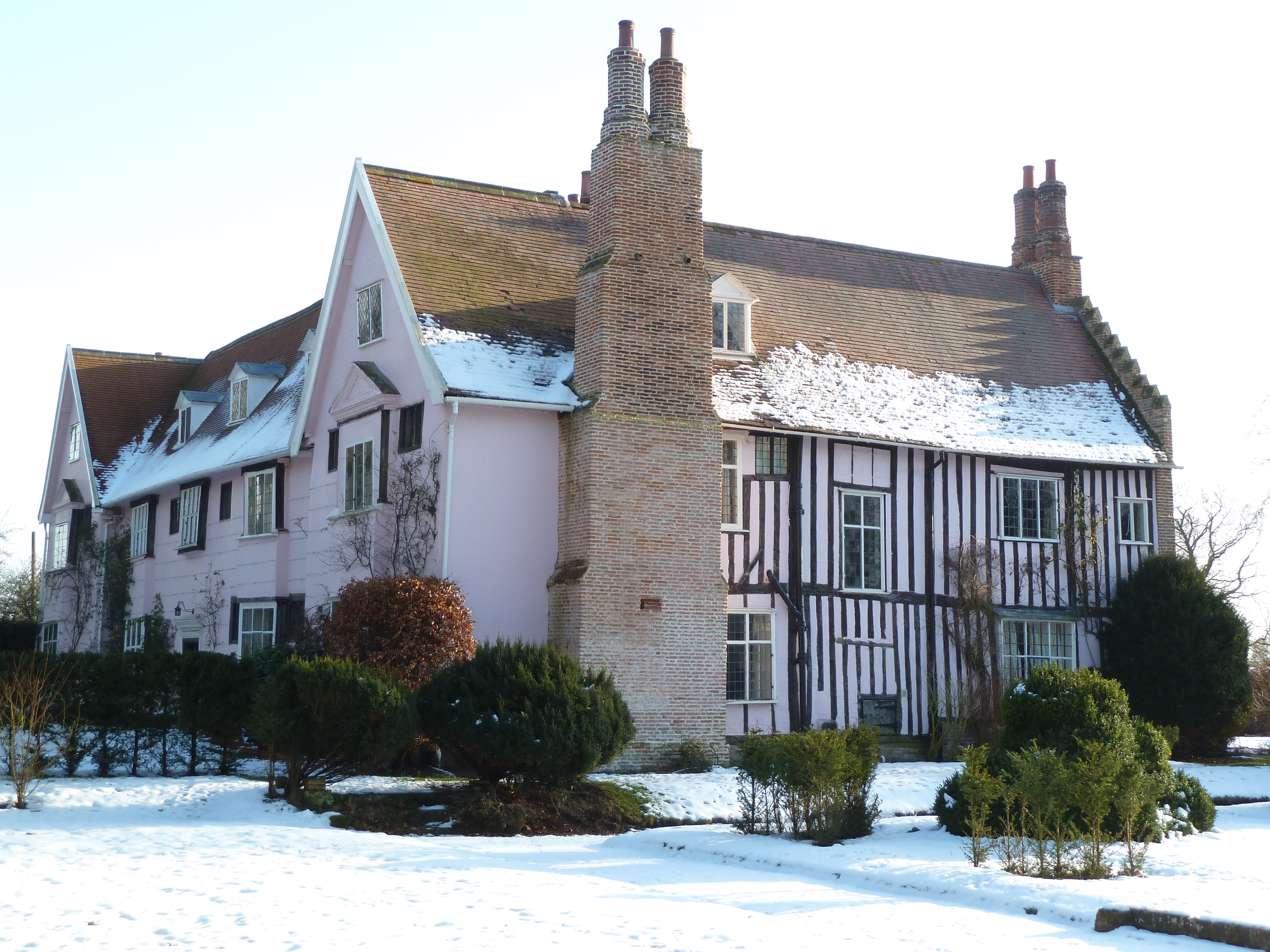 Blo' Norton Hall Wikidata has entry Q17553436 with data related to this item.